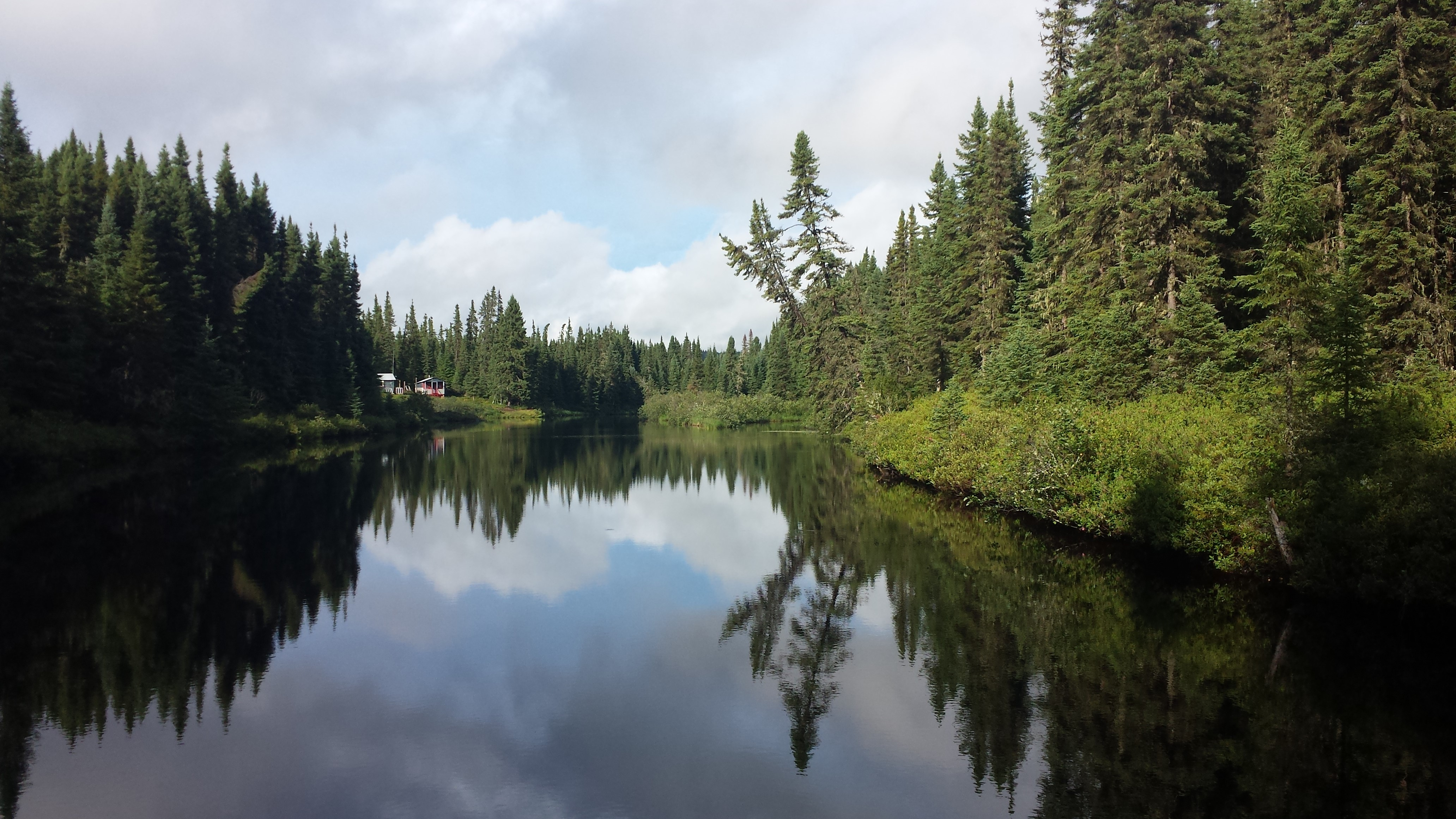 "Petite rivière Pierriche" (Little River Pierriche) (Mauricie, Quebec, Canada) 1 km before its mouth.